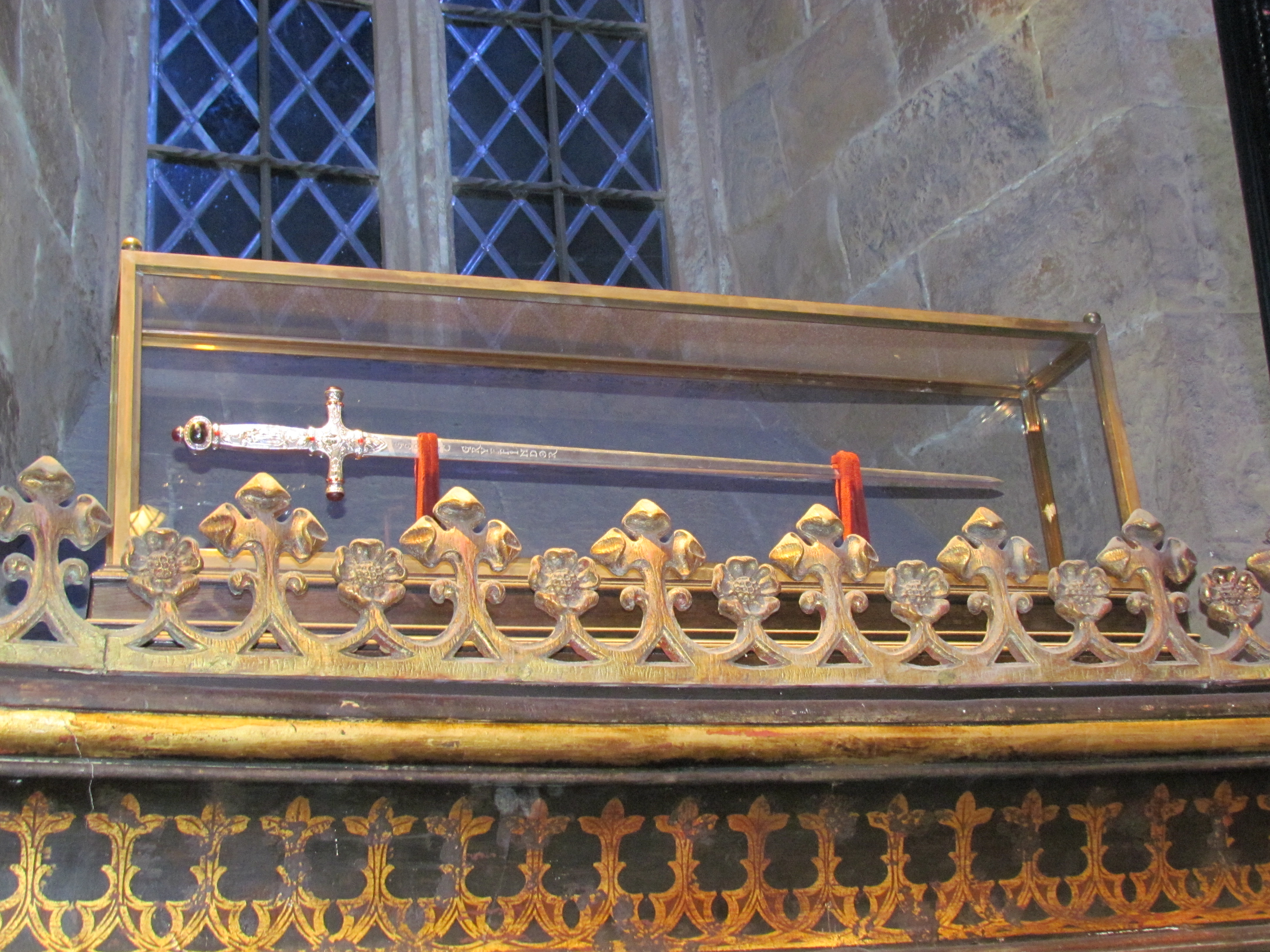 The Gryffindor Sword at Dumbledore's office